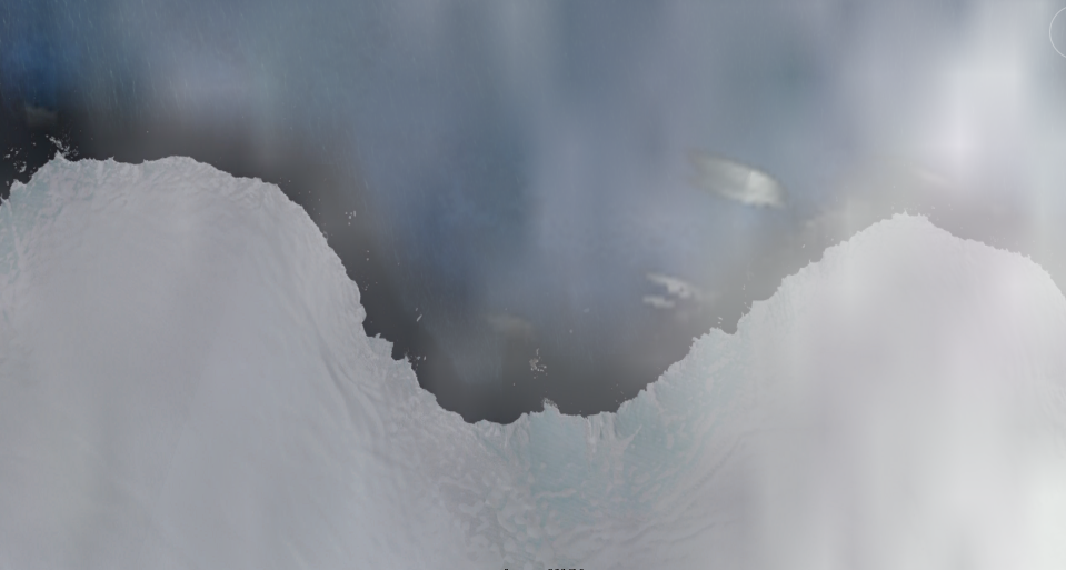 Image of Commonwealth Bay, Antarctica. Google Earth gives a date of 12/31/1998. Second image cropped to remove the Google Earth bug.